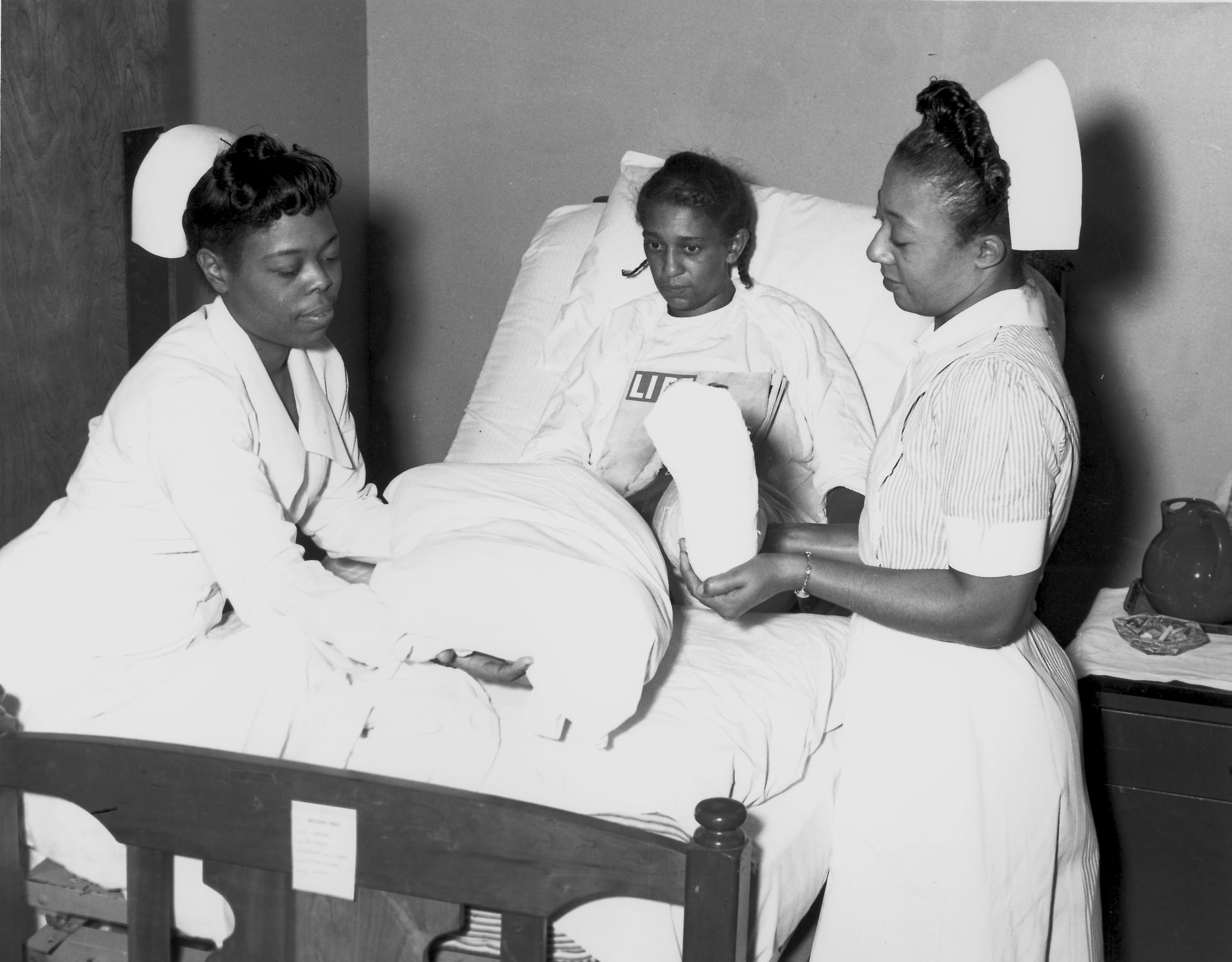 1310-4 DOE photo Ed Westcott 1940s Oak Ridge Tennessee